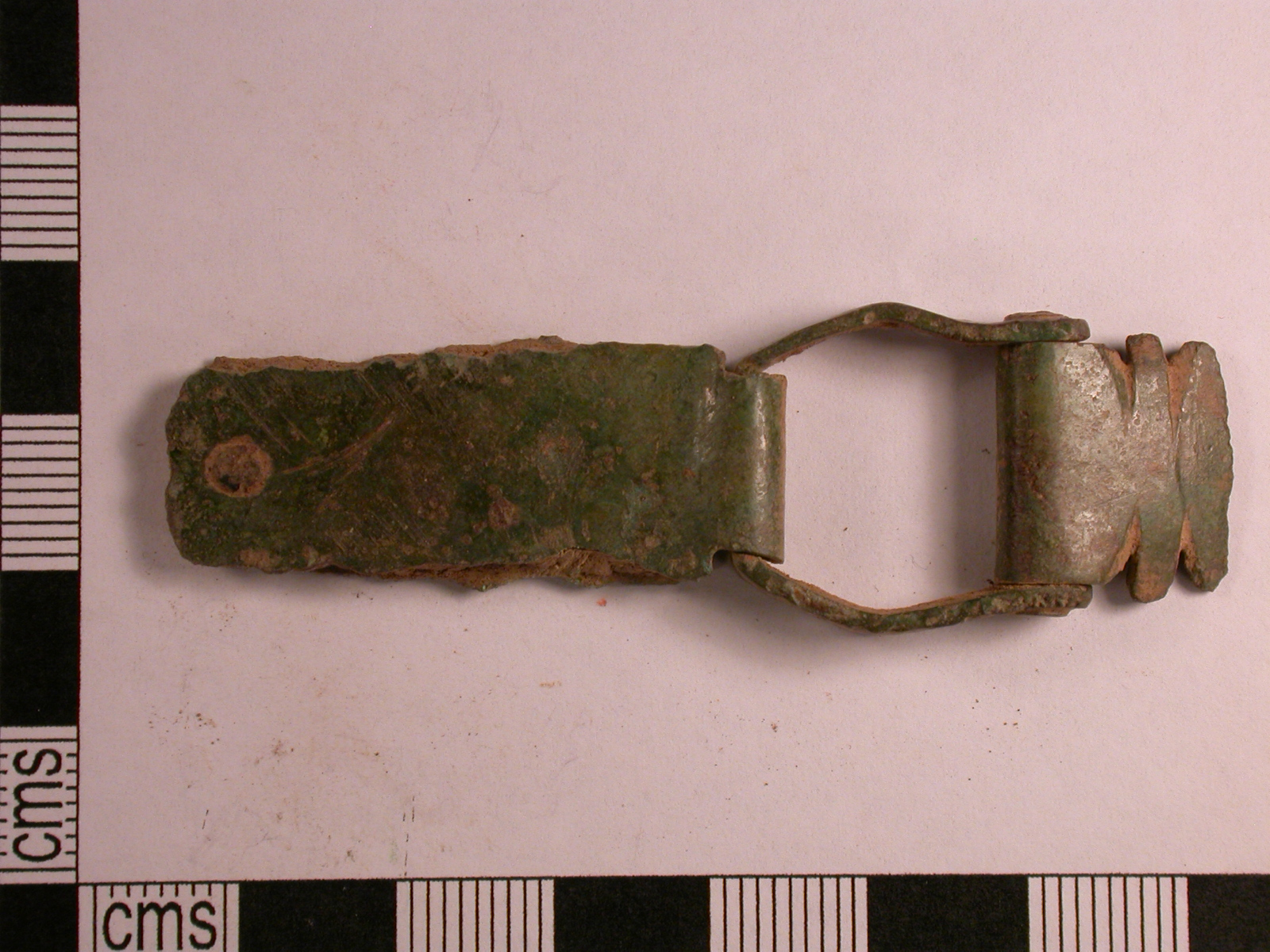 Cast copper alloy composite single loop folding strap clasp with a separate spindle and a sheet plate that is looped around the frame and still retains the leather strap between the two plates. The plates and strap are riveted together by a single central rivet at the opposite end to the frame. The strap bar is narrowed and offset and the frame then expands and tapers again towards the spindle. There is a sheet closure plate which is looped around the spindle and rotates to partly cover the aperture within the frame. The terminal of the closure plate has two oblong knops that are defined by pairs of triangular grooves, but there is no incised decoration on the upper surface or on the main plate. The plate is 39 mm long, 16 mm wide and 4 mm thick with the strap intact, and the frame is 22 mm long, 21 mm wide and 5 mm thick, and the closure plate is 15 mm long, 17 mm wide and 1 mm thick. Whitehead (1996) illustrates similar strap clasps on page 41, Nos.237-8, which are dated from c.1350-1450. Egan & Pritchard (1991) illustrate similar folding strap clasps on pages 118-9, Figs.77-8, Nos.556 & 569, which are dated from c.1350-1400.